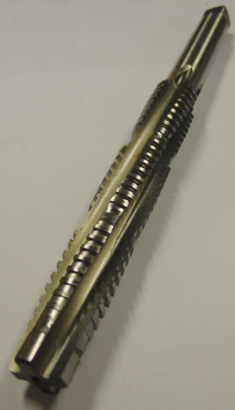 Tr34 acme screw thread / Tr34 Trapezgewindebohrer